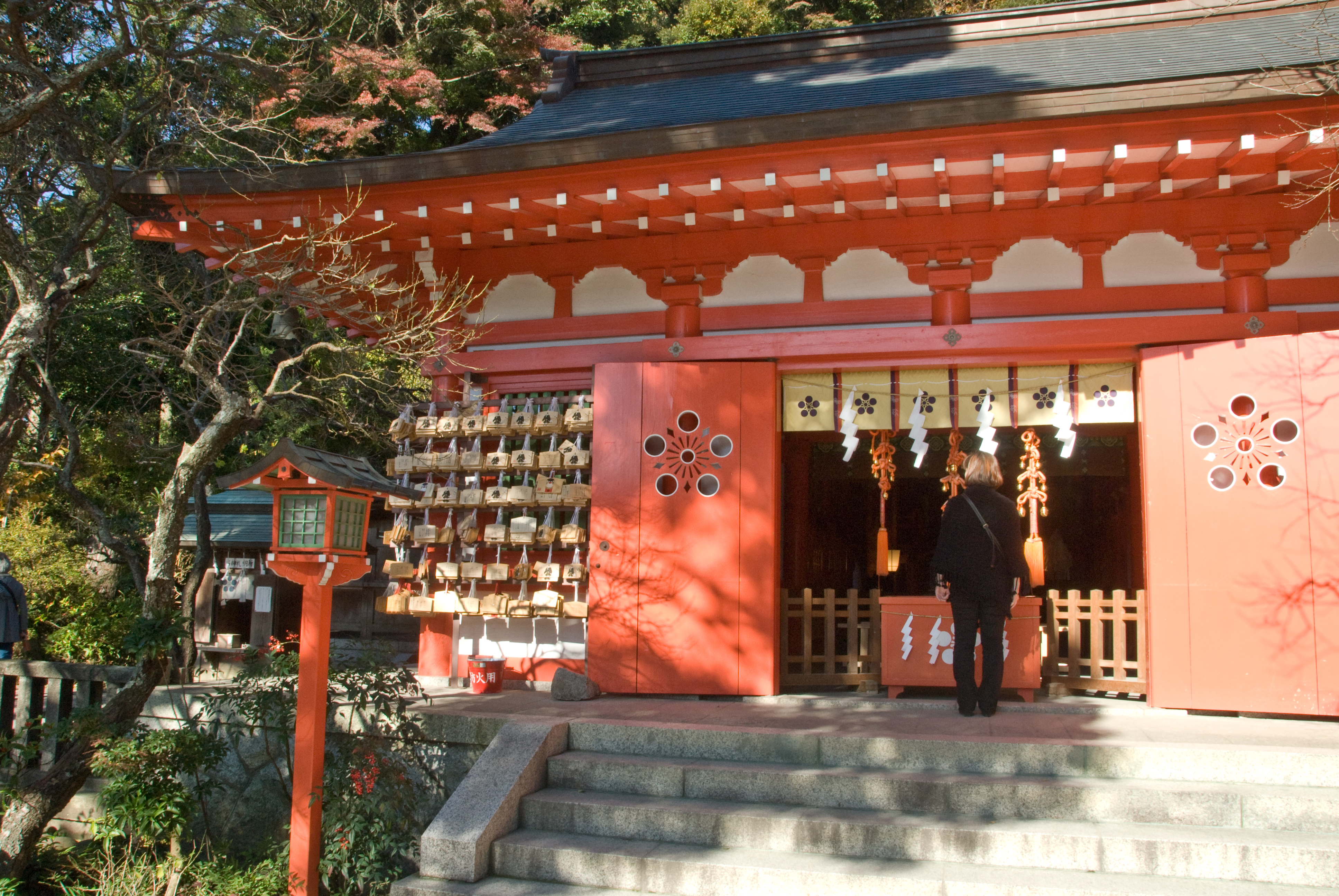 Main Hall of Egara Tenjinsha shrine in Kamakura